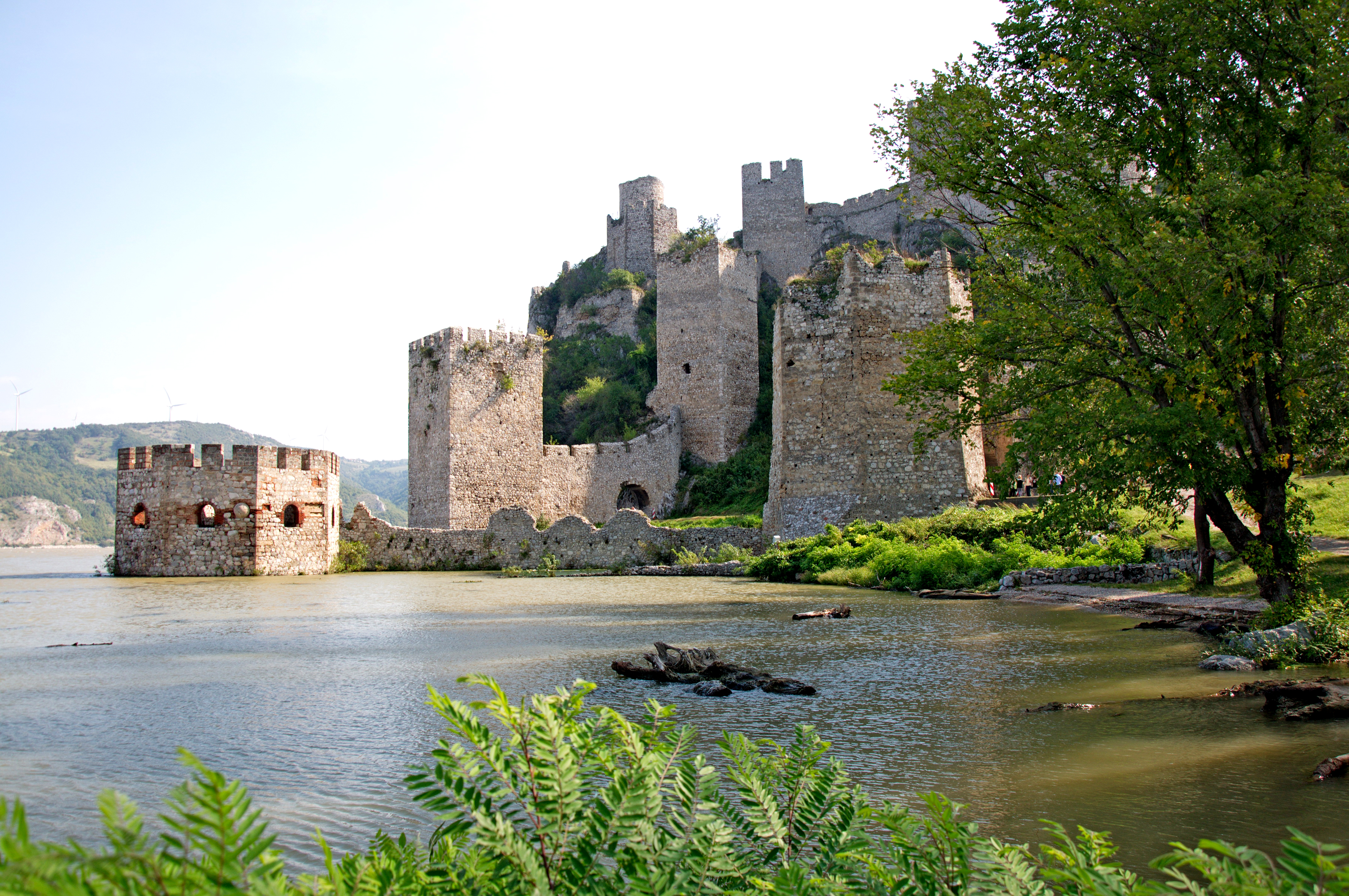 Golubac Fortress